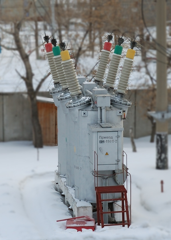 Oil circuit breaker MKP-110 (110 kV) on traction substation 110 kV 50 Hz/3.3 kV DC of railway, Toliatti city, Russia